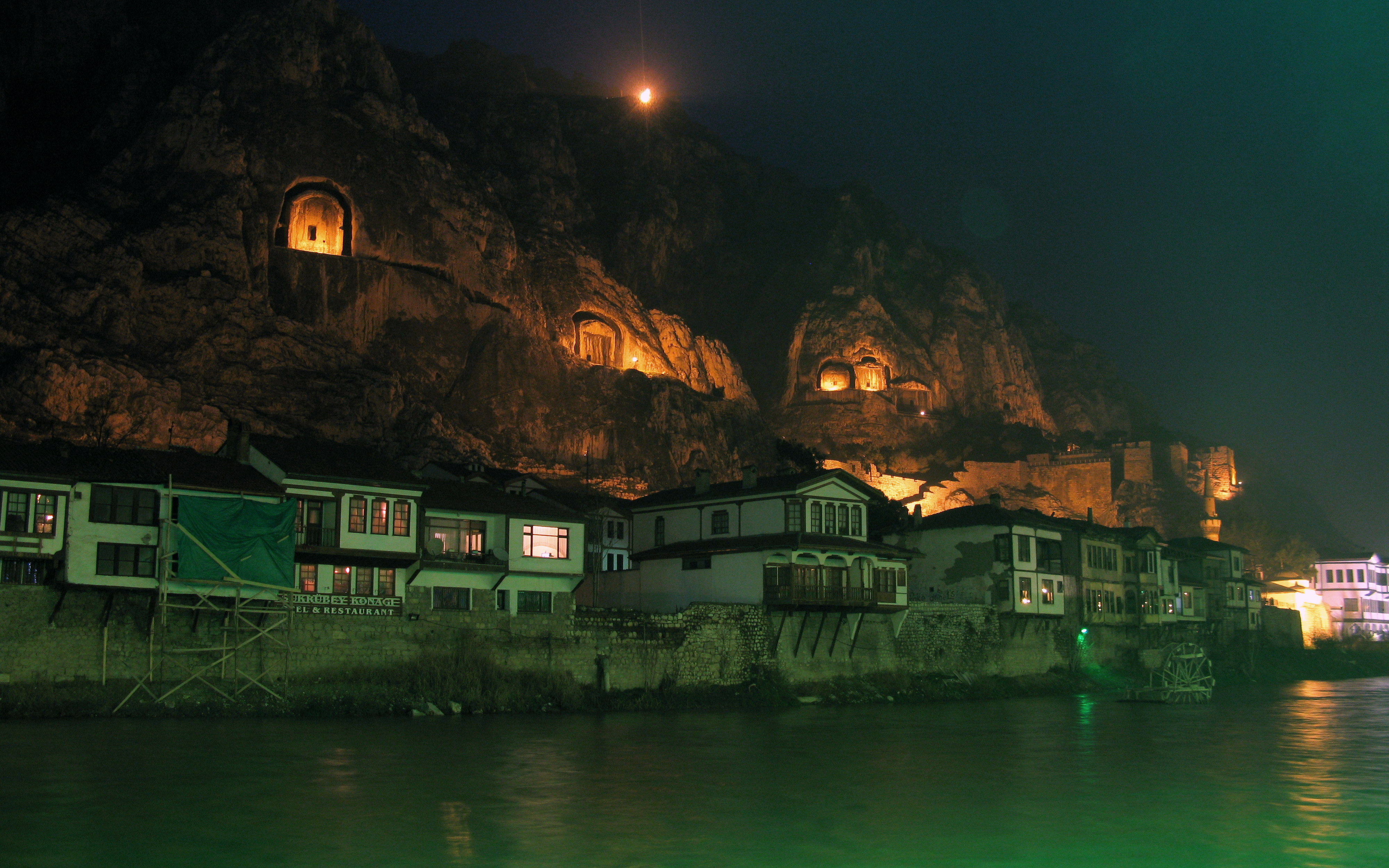 The tombs of Pontus and Yeşilırmak river in Amasya, Turkey at night. The green lights are due to the street lamps.